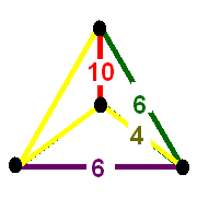 Omnitruncated_120-cell vertex figure